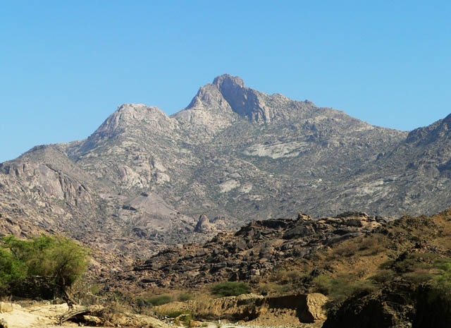 Shada Upper Mountain, south-west of Saudi Arabia